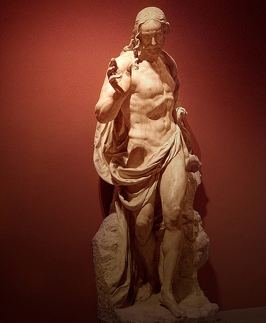 Jesus Christ, part of the Resurrection group. Marble, before 1572.